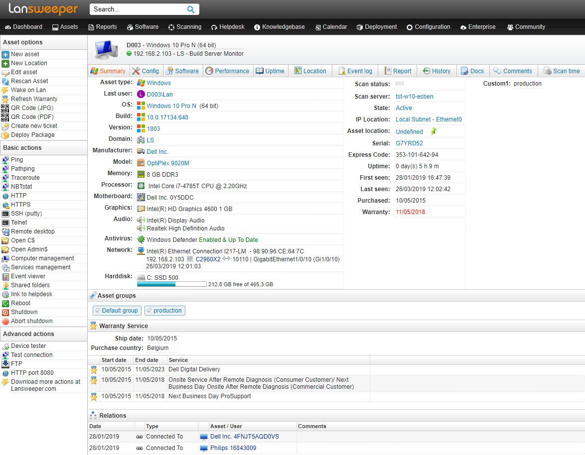 A summary page of a Windows asset in Lansweeper 7.1.50